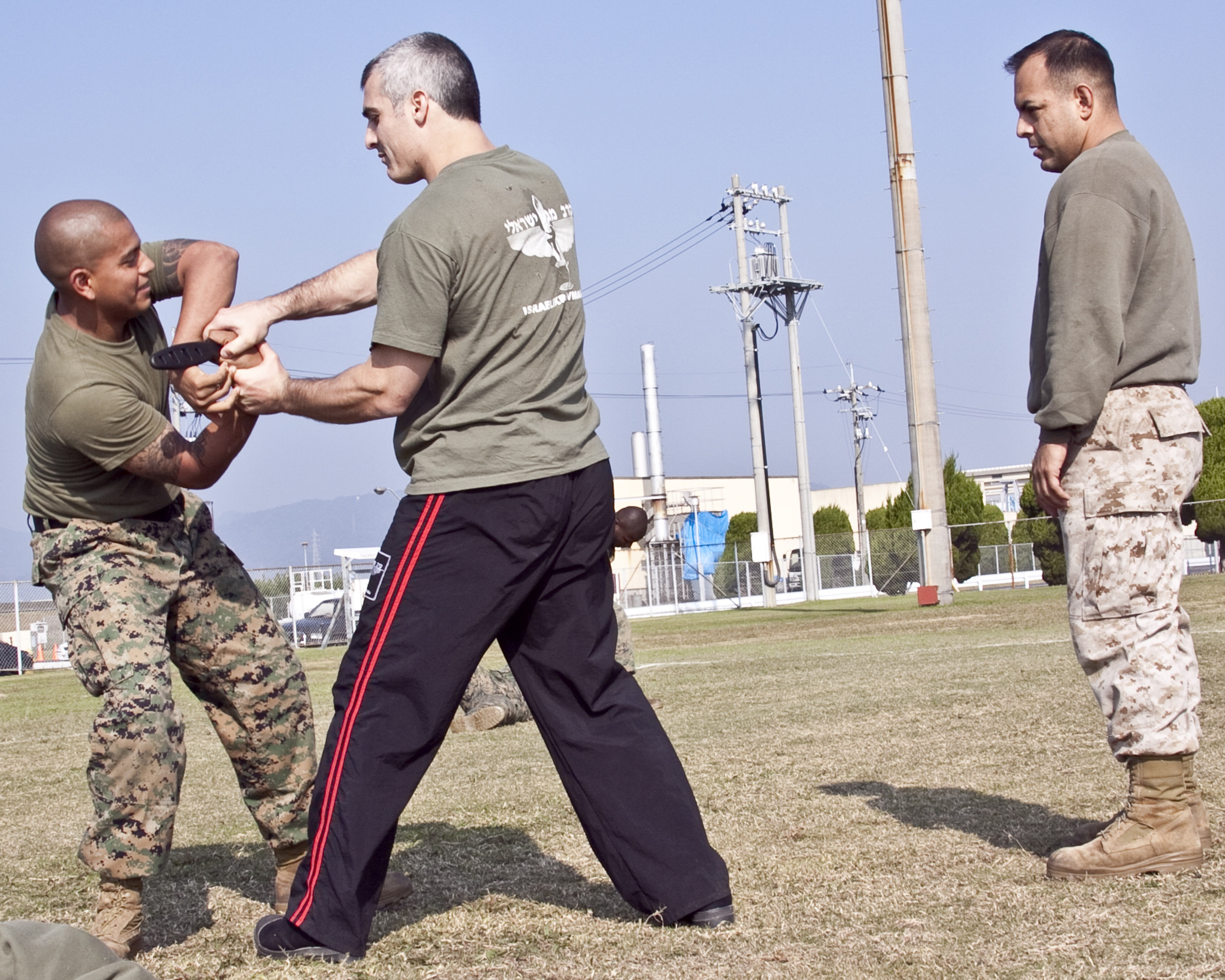 David Kahn, center, teaches U.S. Marine Corps Sgts. Enrique D. Watson, right, and Bernardo Leyva, left, Headquarters and Headquarters Squadron, Krav Maga fighting techniques Oct. 28, 2009, at U.S. Marine Corps Air Station Iwakuni, Japan.